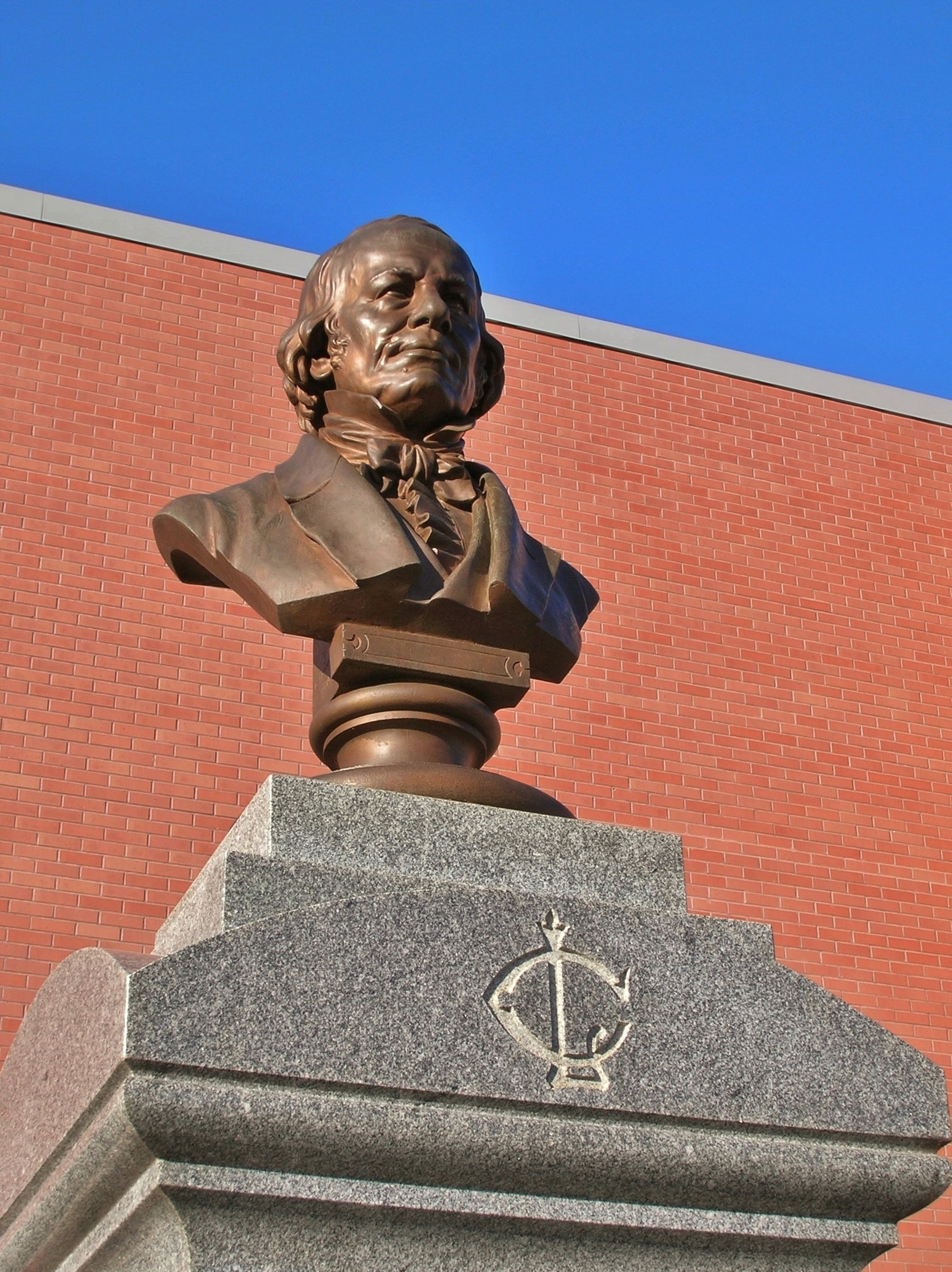 Bust of Laurent Clerc, sculpted by Carl Conrads in 1874. Located at the American School for the Deaf in West Hartford, Connecticut. Photo was taken 1/19/2016.